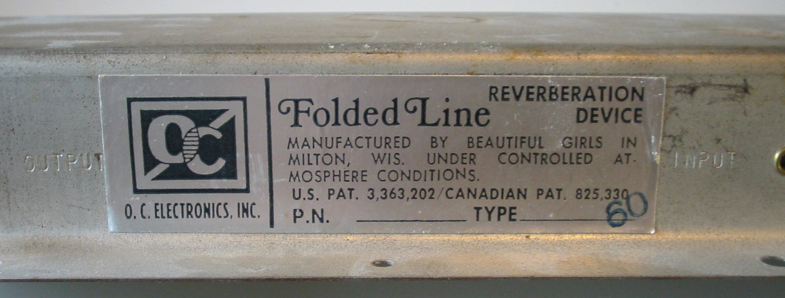 O. C. Electronics, inc. Folded Line reverberation device Manufactured by beautiful girls in Milton, Wis. under controlled atmosphere conditions. U.S. pat. 3,363,202 / Canadian pat. 825,330 Type 60